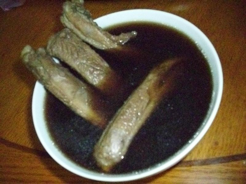 Daya Night Market, Daya District, Taichung.